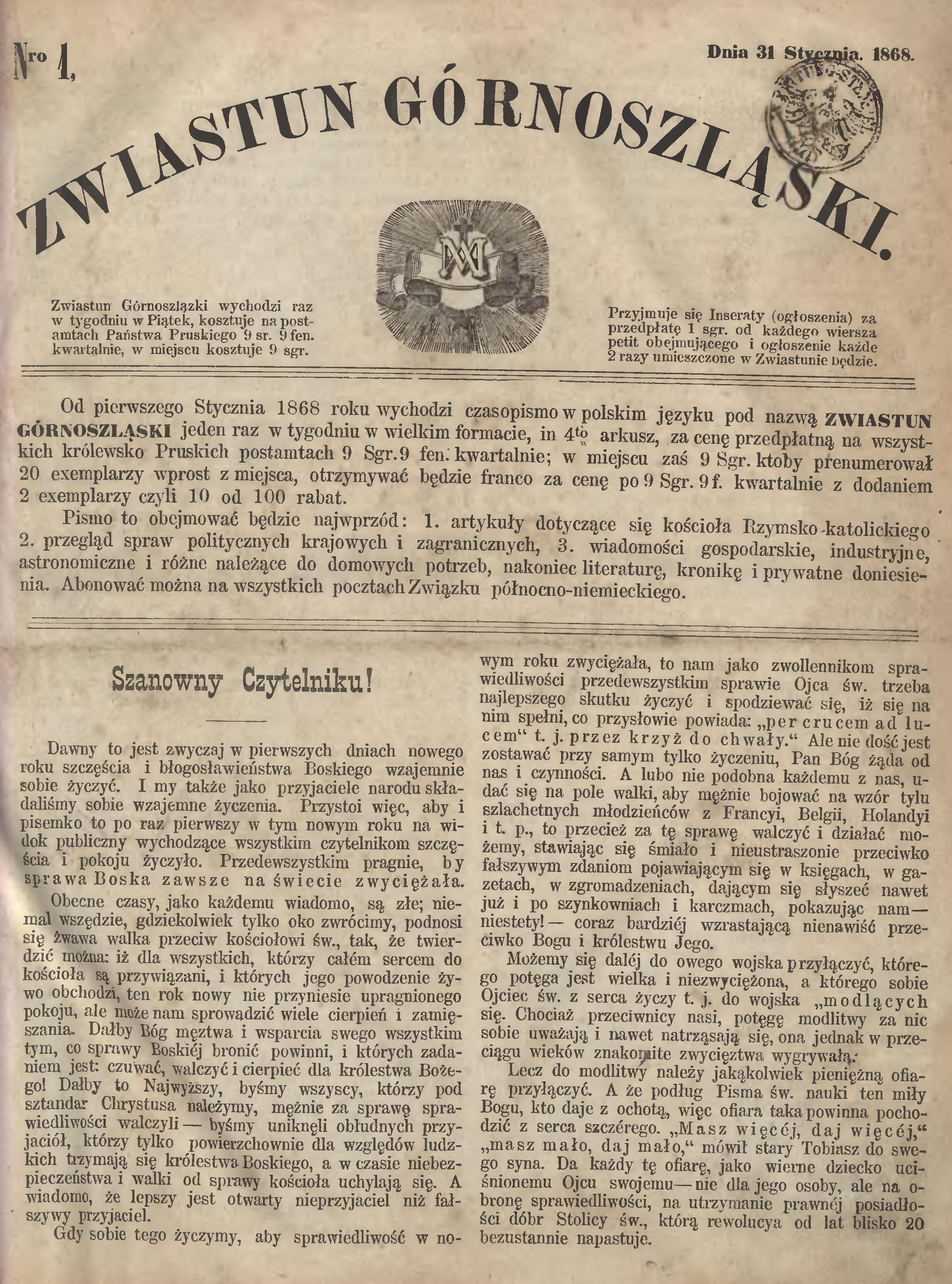 "Zwiastun Górnoszląski" nr1 1868, Teodor Heneczek (1817-1872)